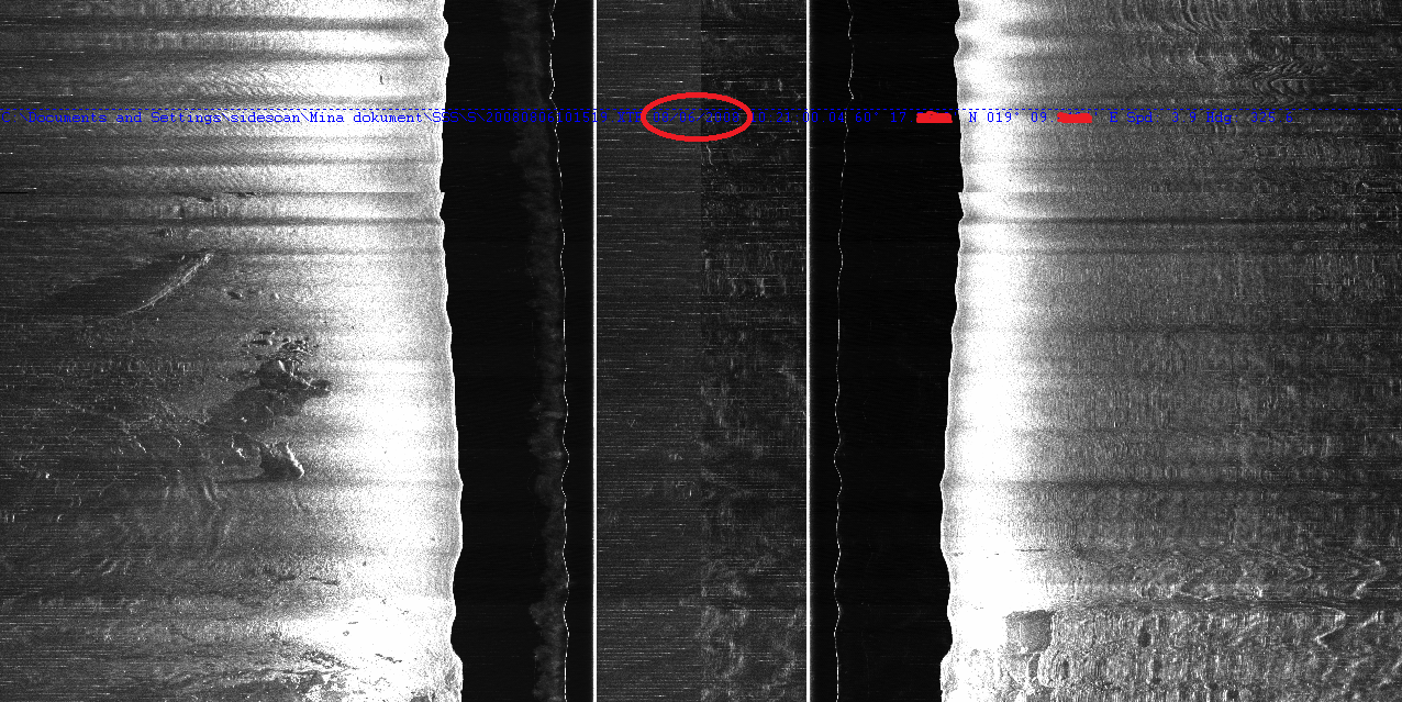 6th of August 2008 first sonar image of submarine S-2